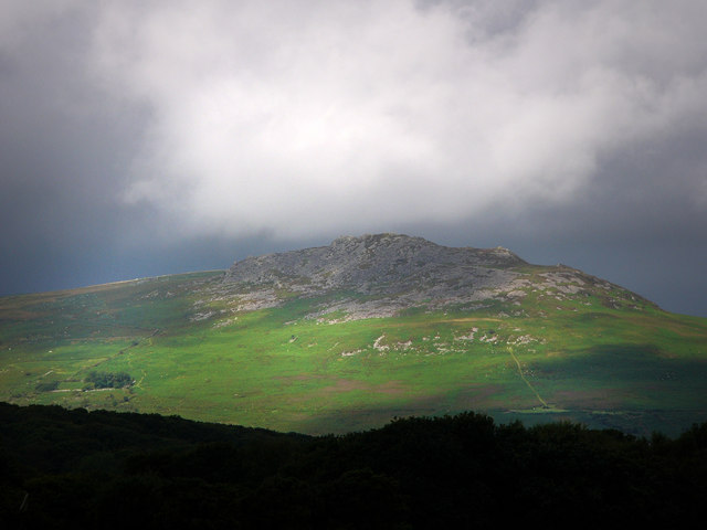 Carningli from Pentre Ifan